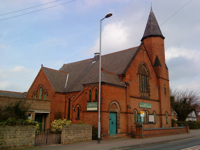 Queen's Road, Methodist Church, Beeston Queen's Road Methodist Church, Beeston, which must be by the same architect as Borrowash Methodist Church, which is almost identical.